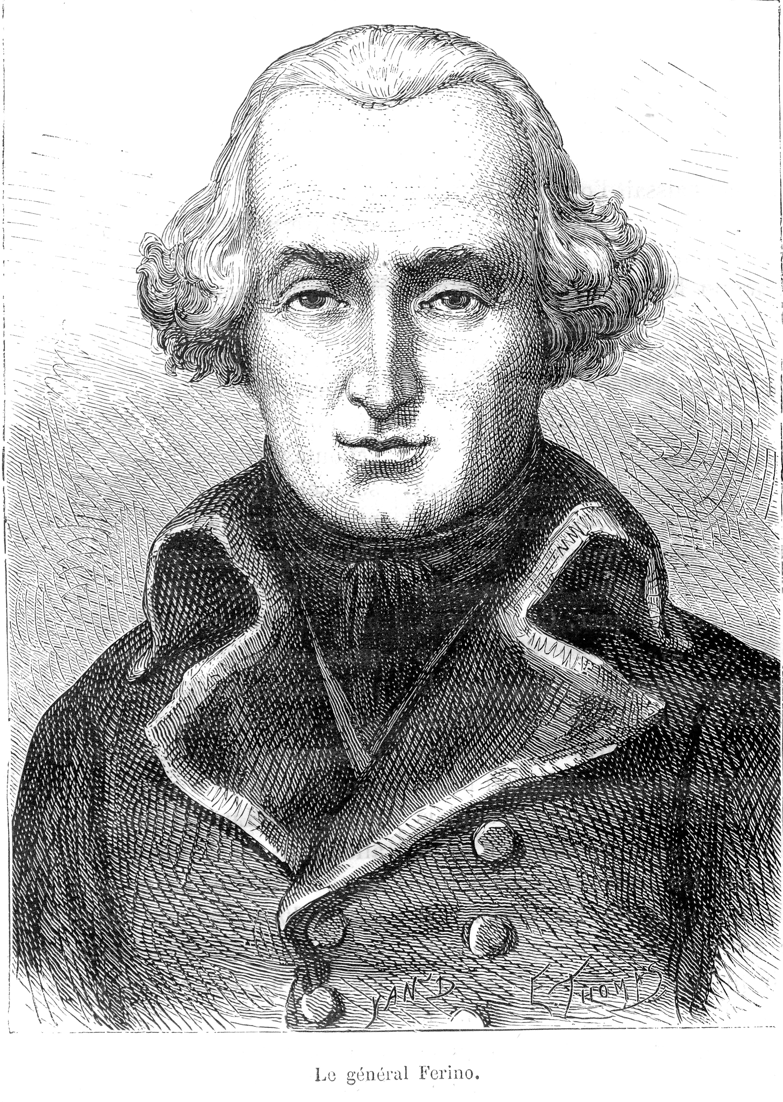 Pierre Marie Barthélémy Ferino, 1747-1816, French General